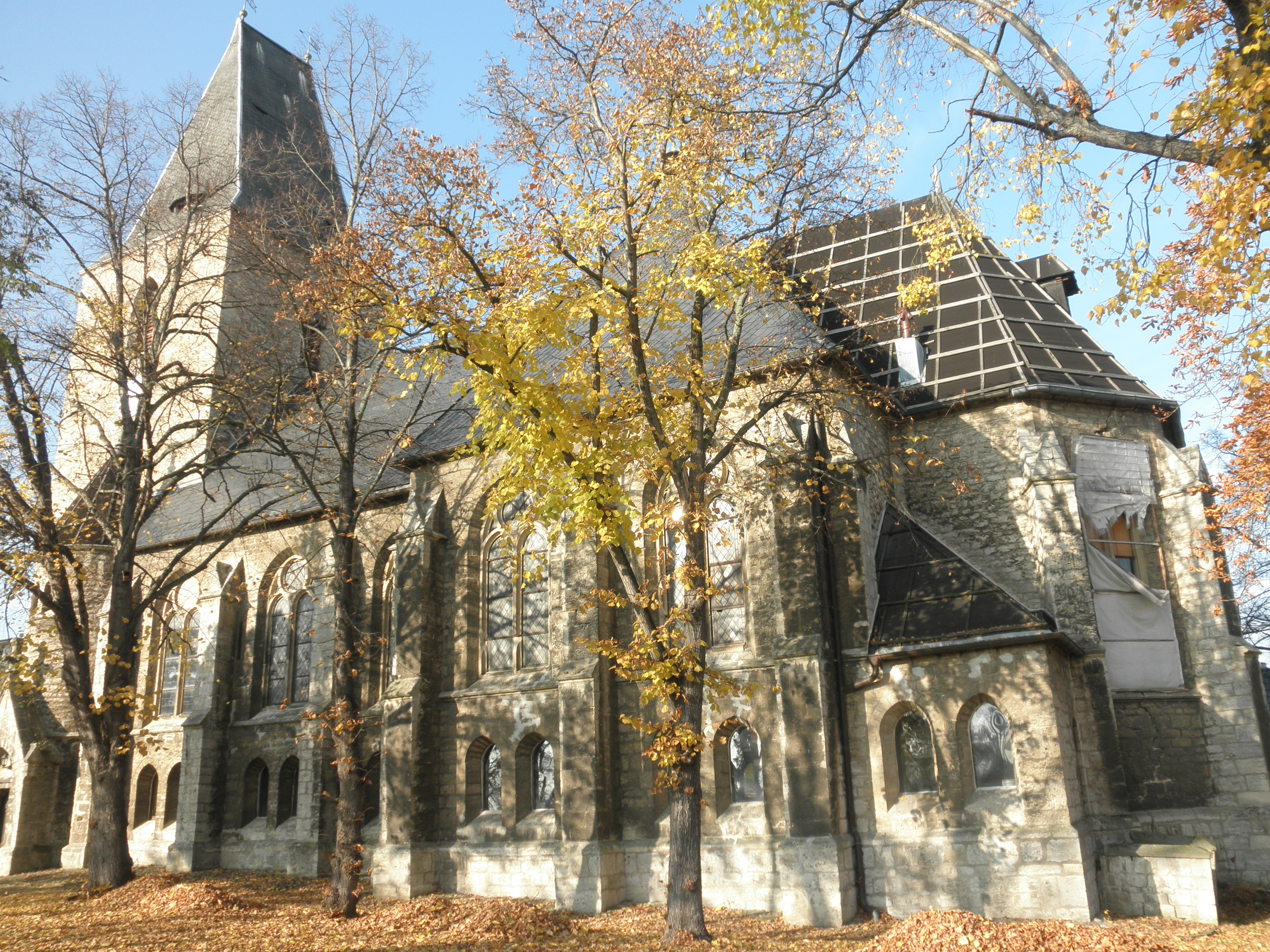 Saint Wigberti Church in Bilzingsleben in Thuringia